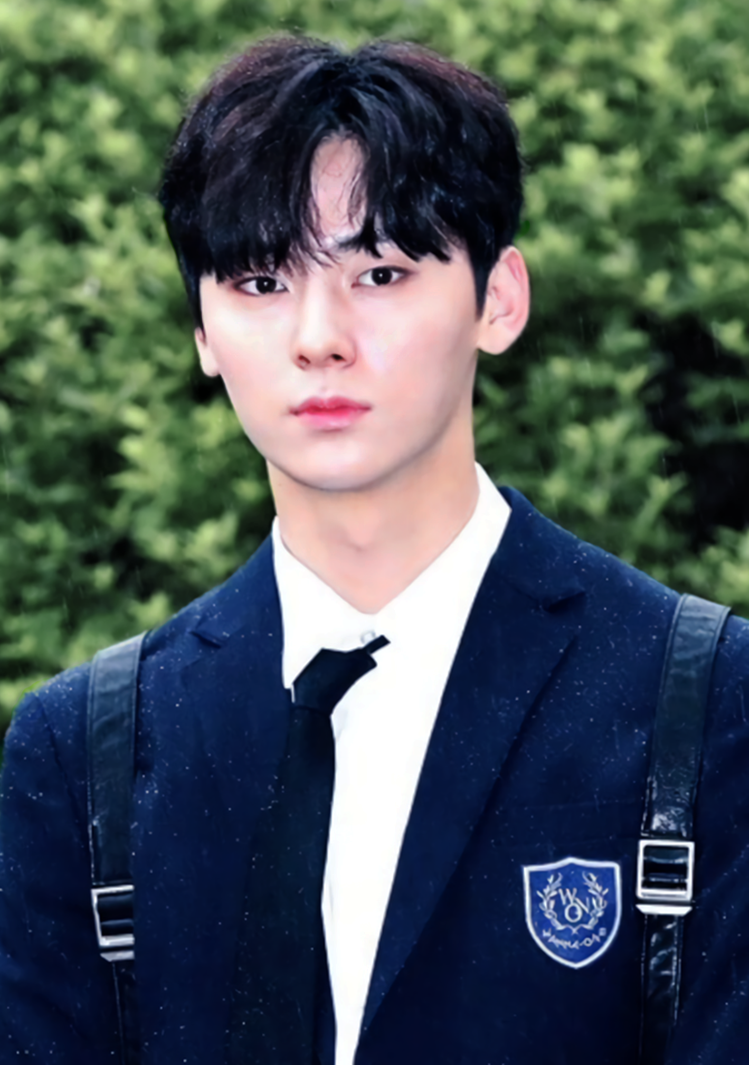 Hwang Min-hyun on July 28, 2017.